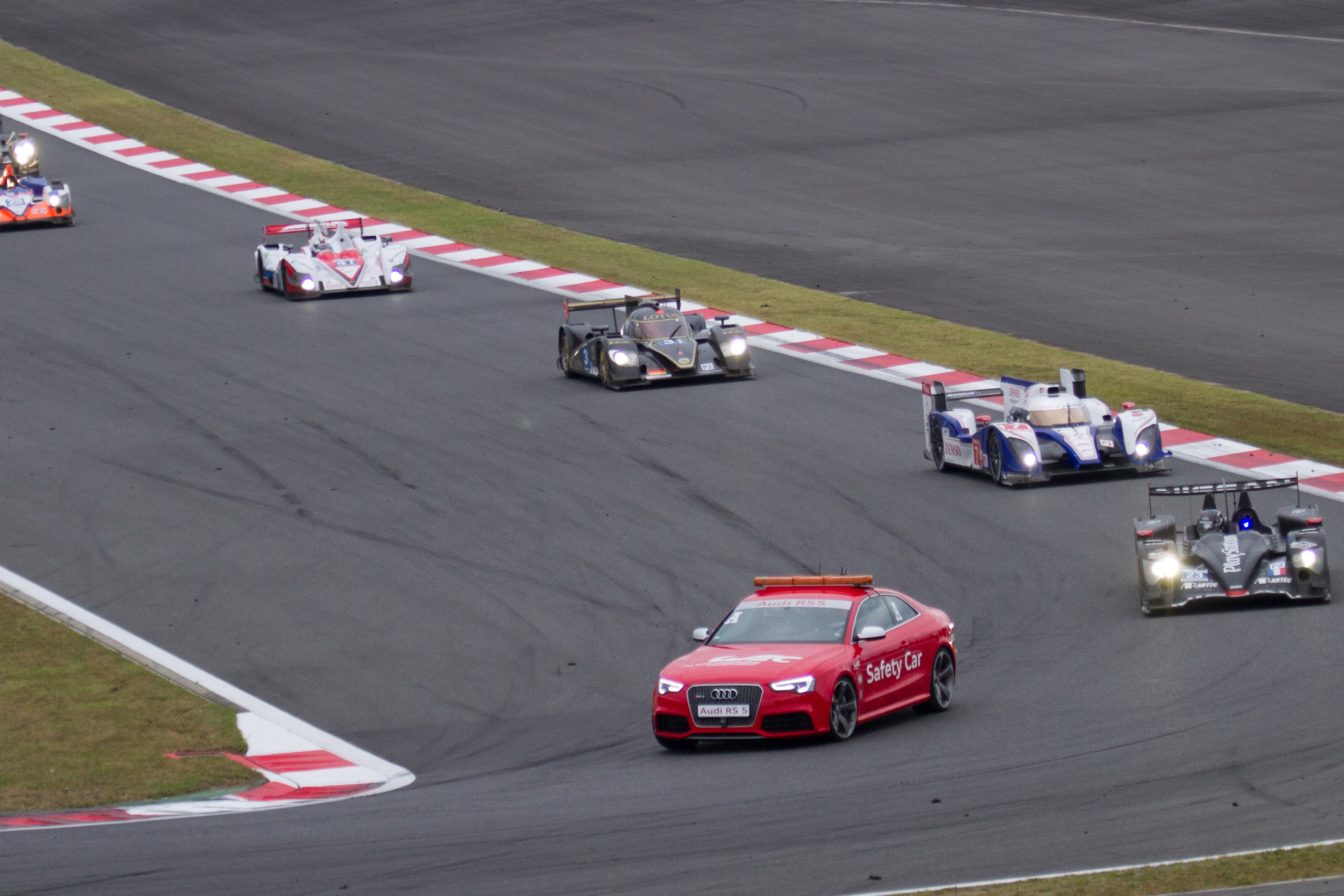 FIA World Endurance Championship 2012 Rd.7 6 Hours of Fuji: Safety car deployed due to the accident of the #1 Audi R18